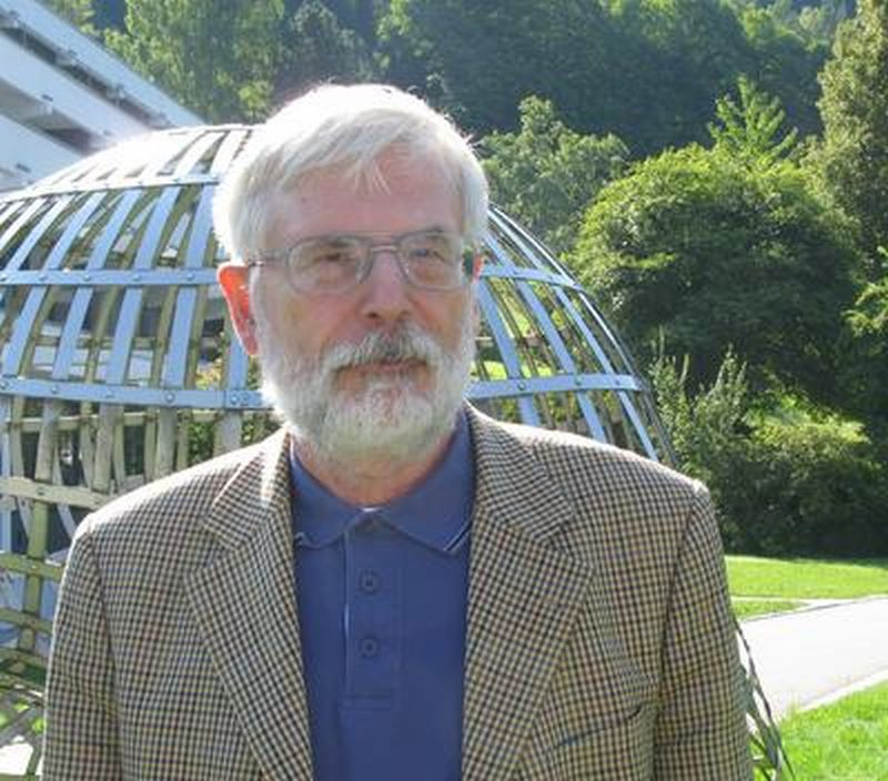 Jens Frehse, Oberwolfach 2009